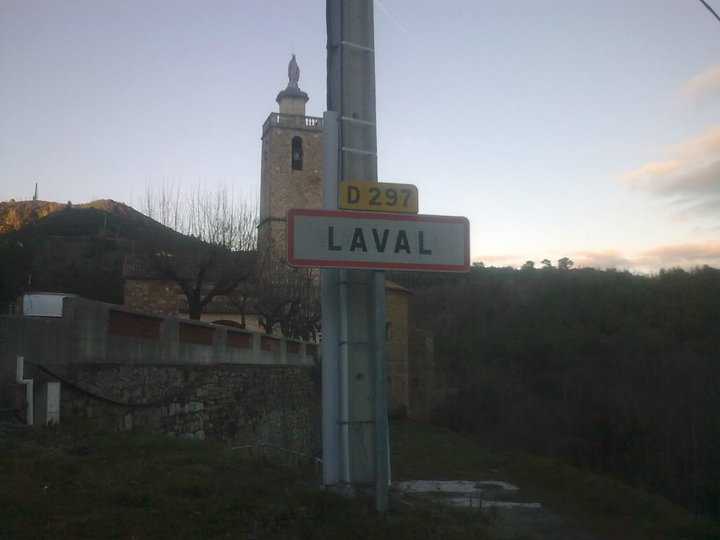 Laval vue eglise